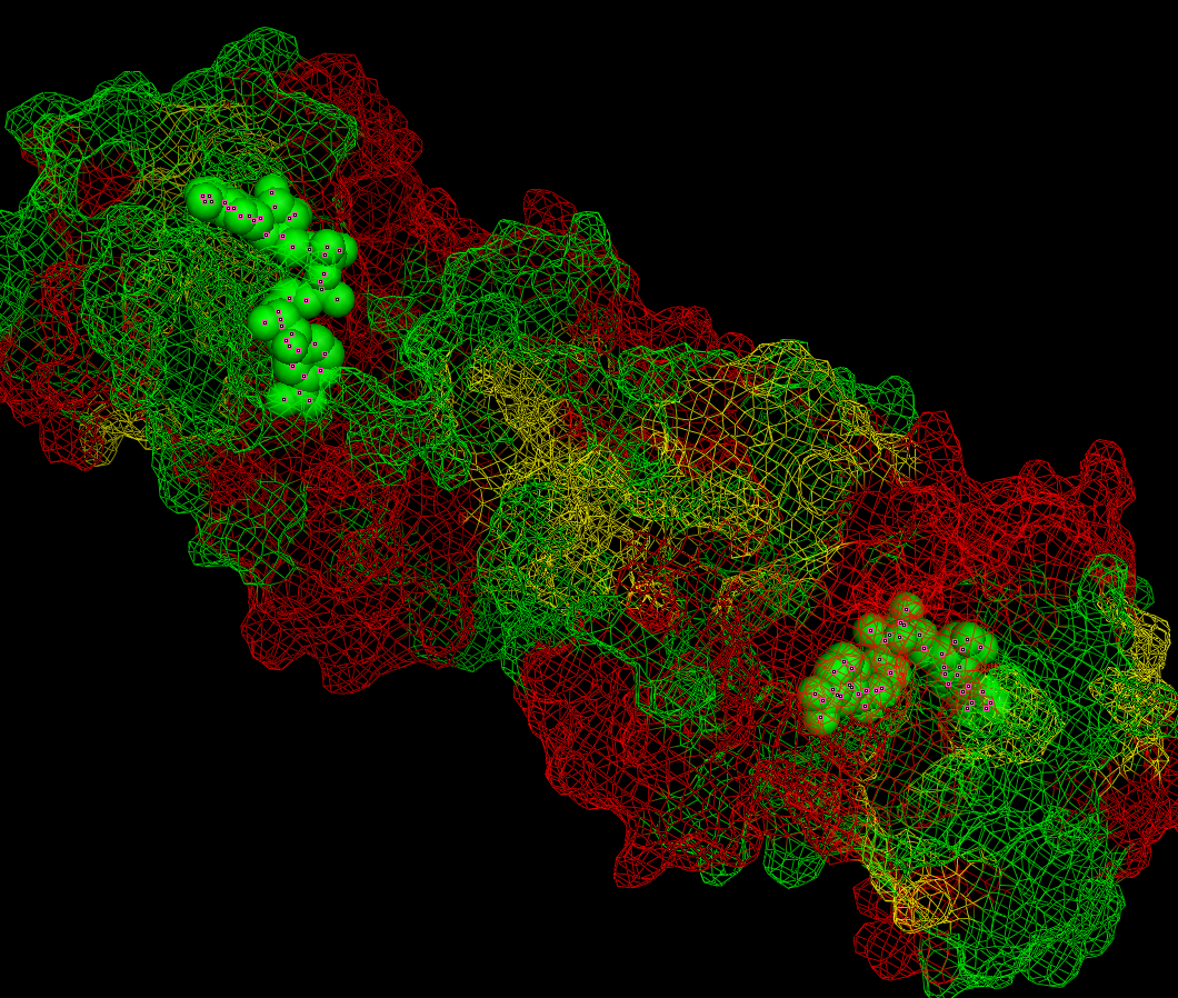 Structure of YdiB enxyme with highlighted NADH binding sites